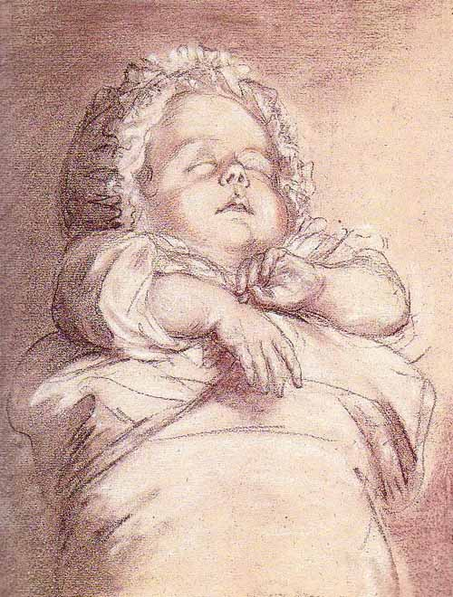 Princess Marie Sophie Hélène Béatrix de France, 1786, youngest child and second daughter of King Louis XVI. of France and Queen Marie Antoinette of France, granddaughter of Empress Maria Theresia of Austria and Holy Roman Emperor Franz I. Stephan of Lorraine, drawing, 32.5 x 26 cm, The youngest child of Louis XVI and Marie Antoinette was born 1786 and died in 1787. This sketch was probably prepared at the same time as the pastel of Princess Sophie on art page 47.